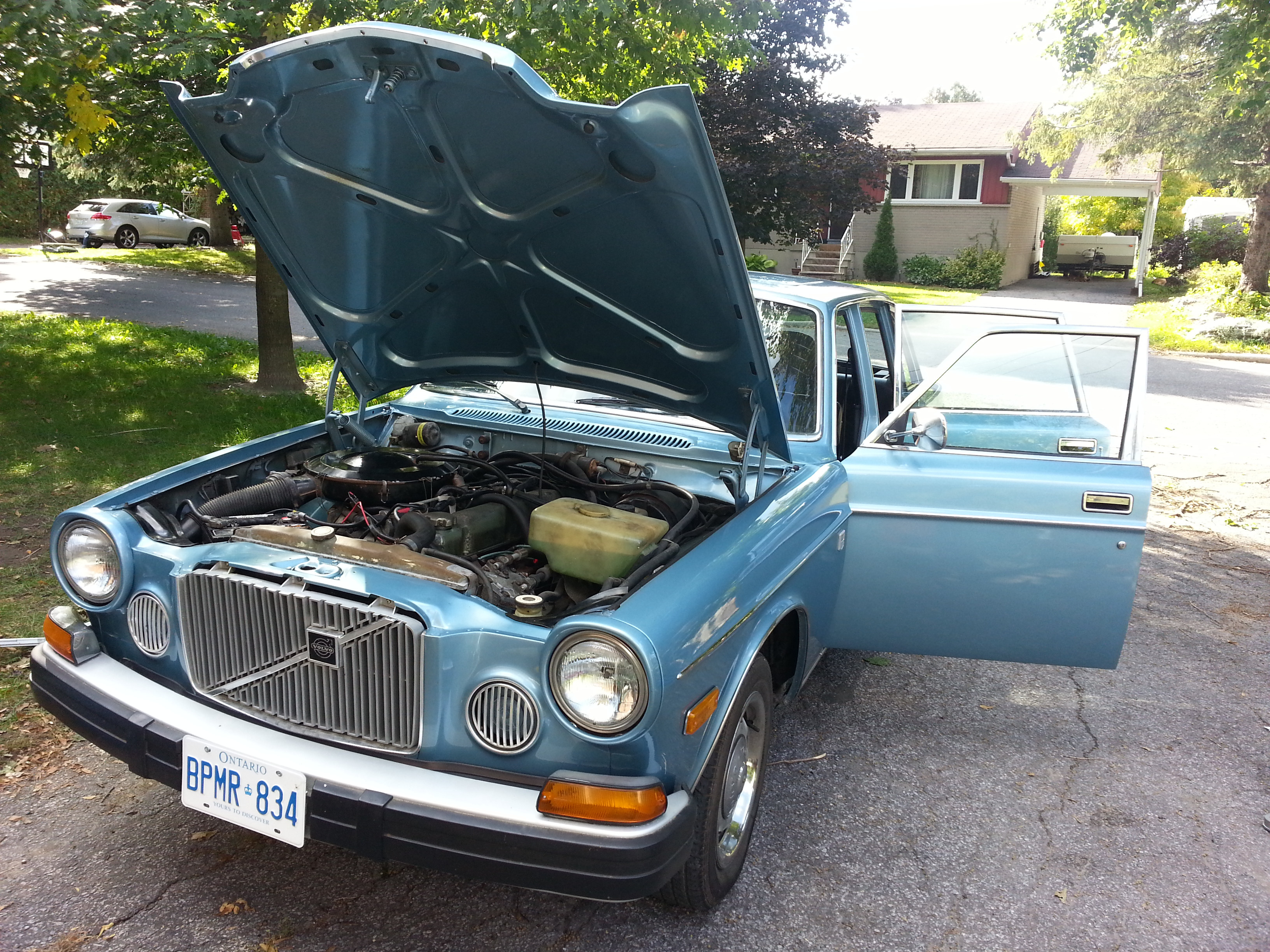 Ice blue 1975 Volvo 164E with BW35 auto transmission.